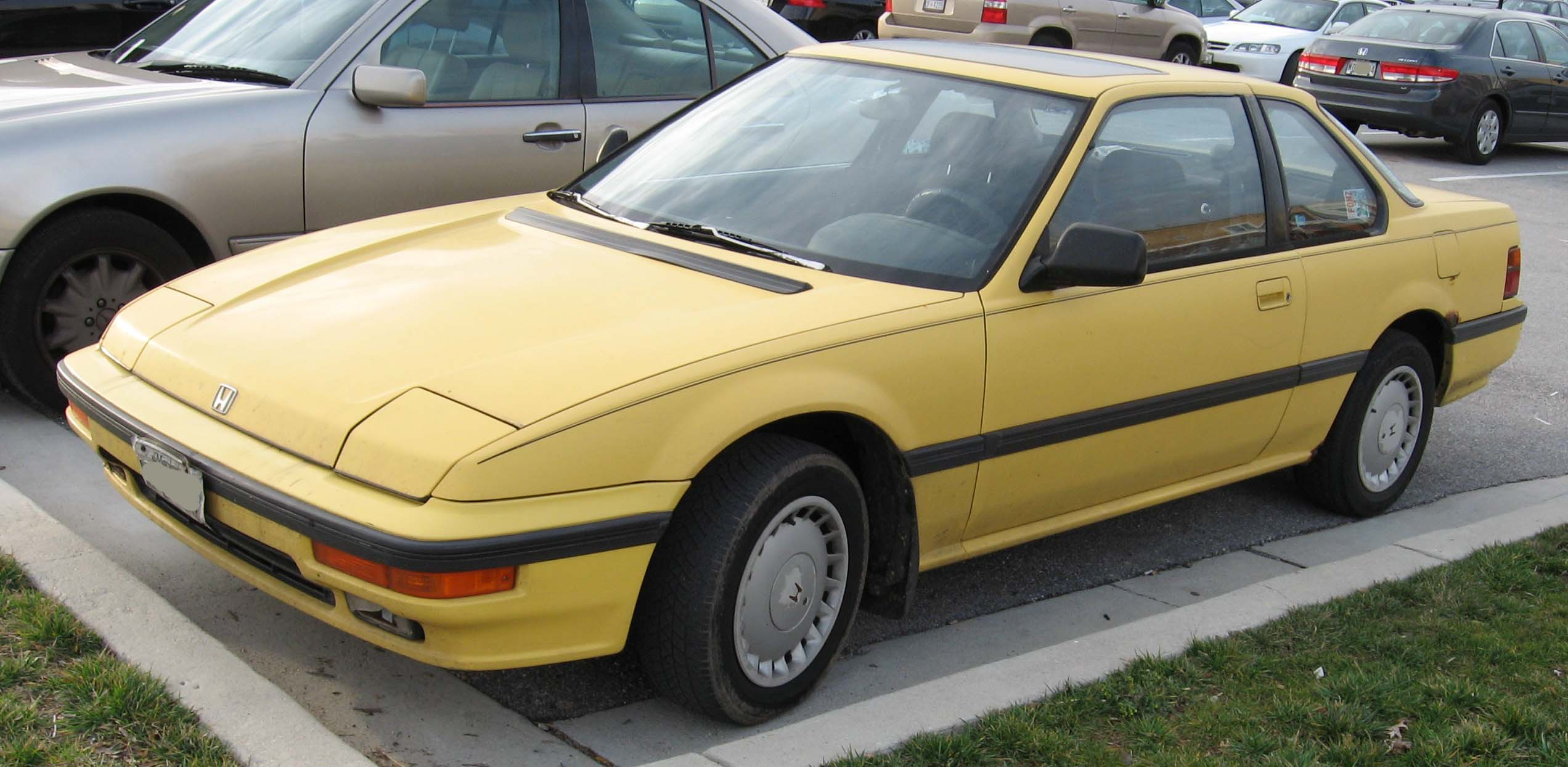 Honda Prelude photographed in USA.